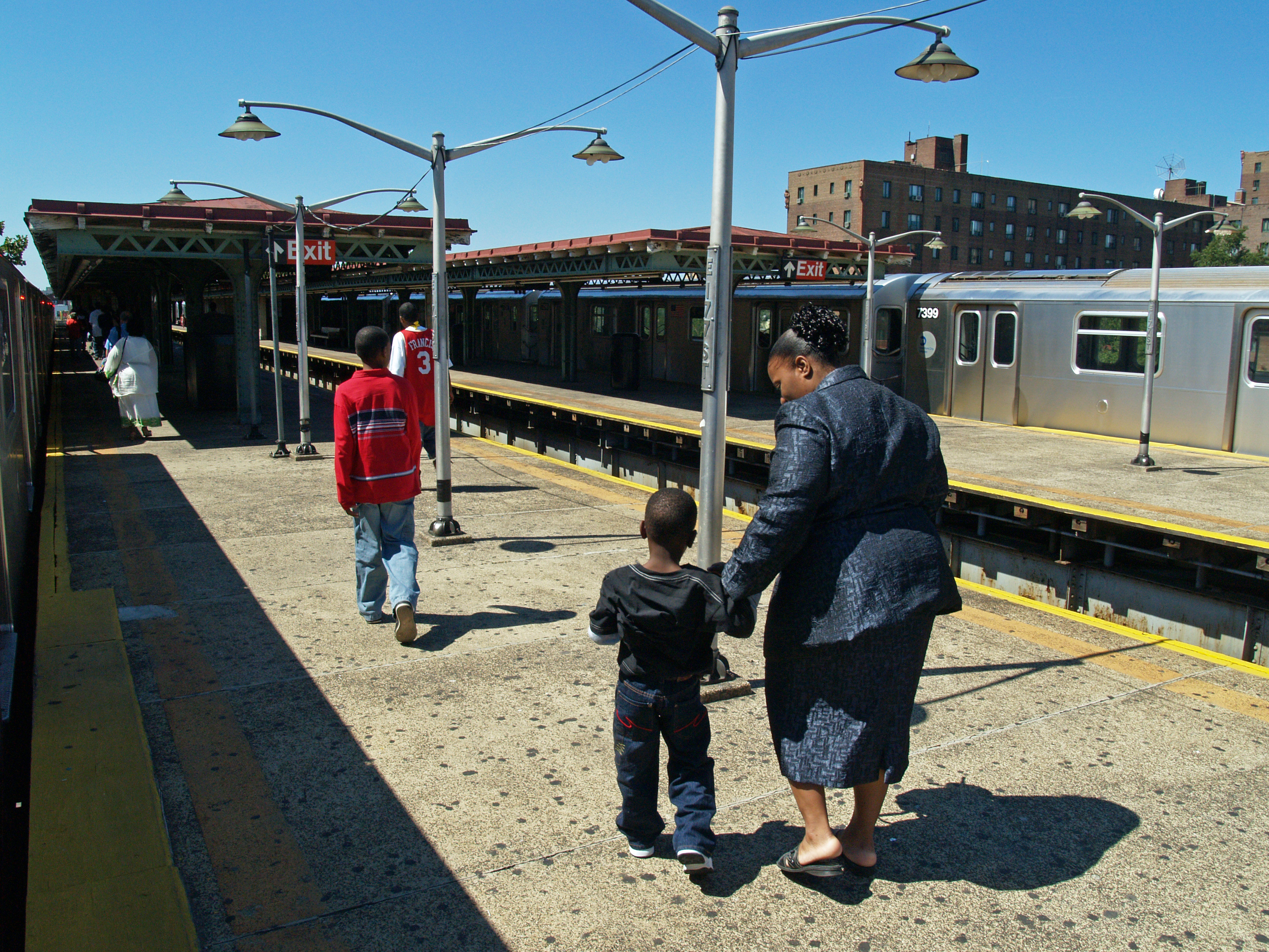 Parkchester (IRT Pelham Line) by David Shankbone